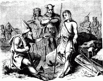 Goths